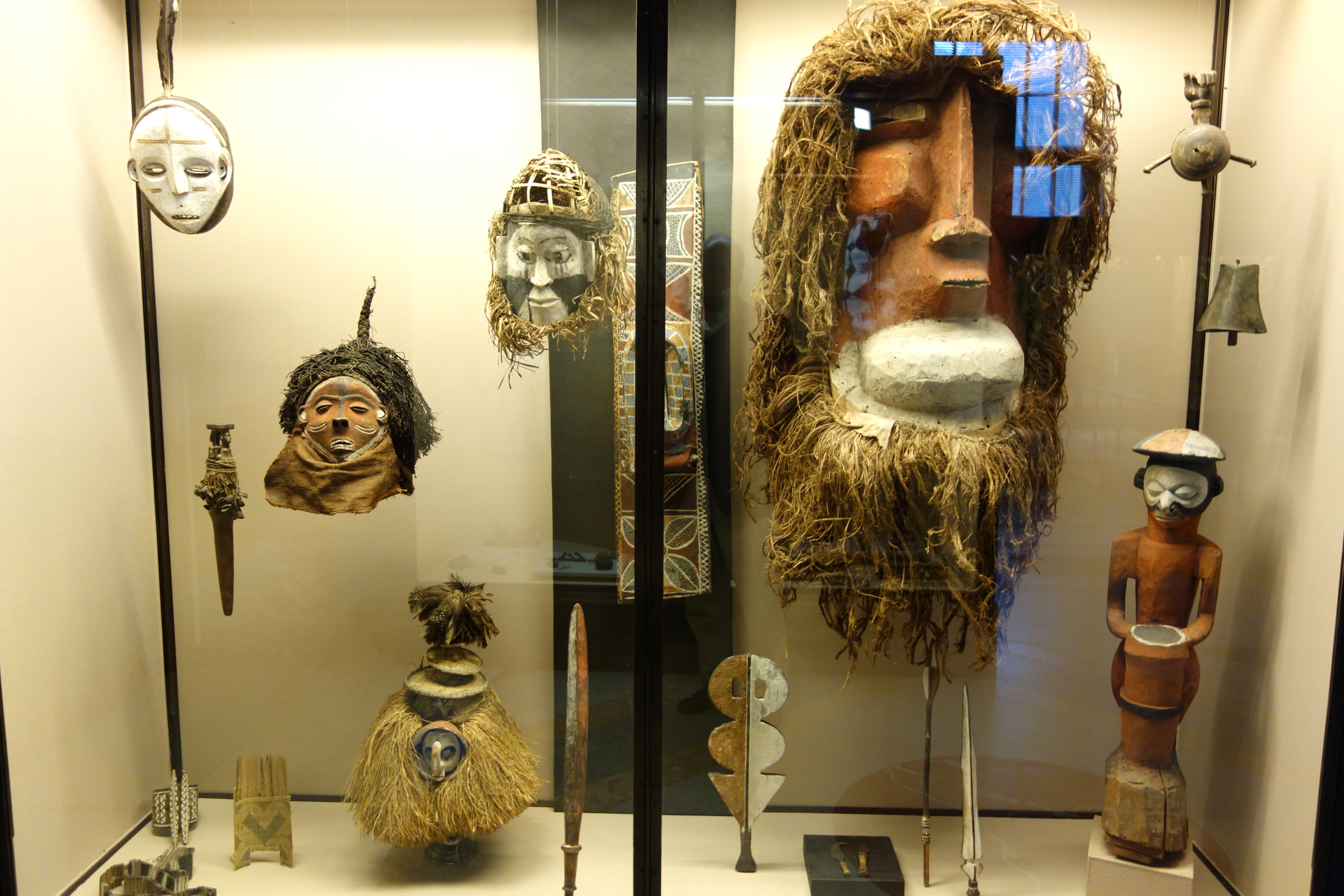 Exhibit in the Royal Museum for Central Africa, Tervuren, Belgium. These objects are old enough so that they are in the public domain.